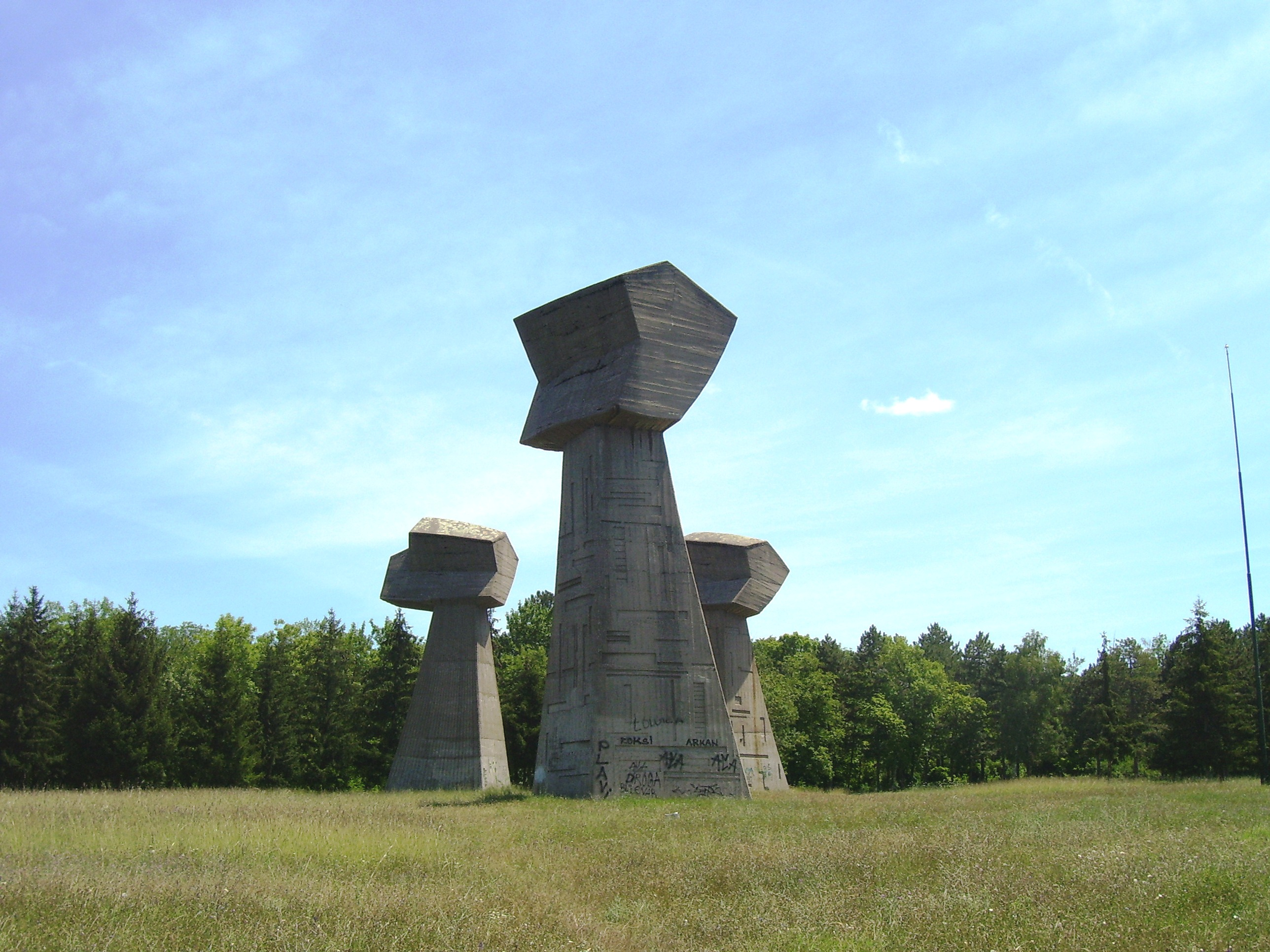 Bubanj Memorial, in a shape of a three fists. Niš, Serbia